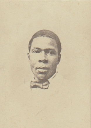 Picture of Johannes King taken around 1870. King (circa 1830-24 October 1898) was a Maroon missionary and a writer in Sranan Tango from Suriname